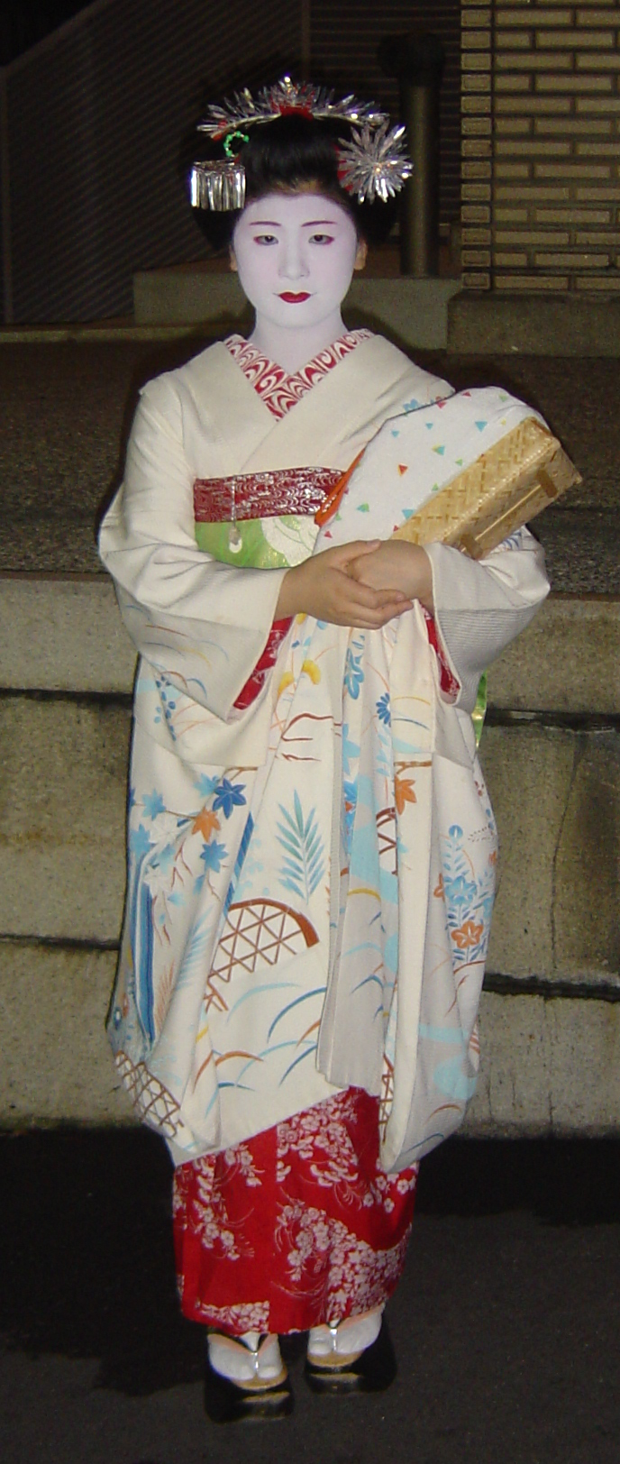 Maiko Koiku on Gion Corner show, (Kyōto, Japan). Koiku of Hiroshimaya okiya, Gion Kôbu.